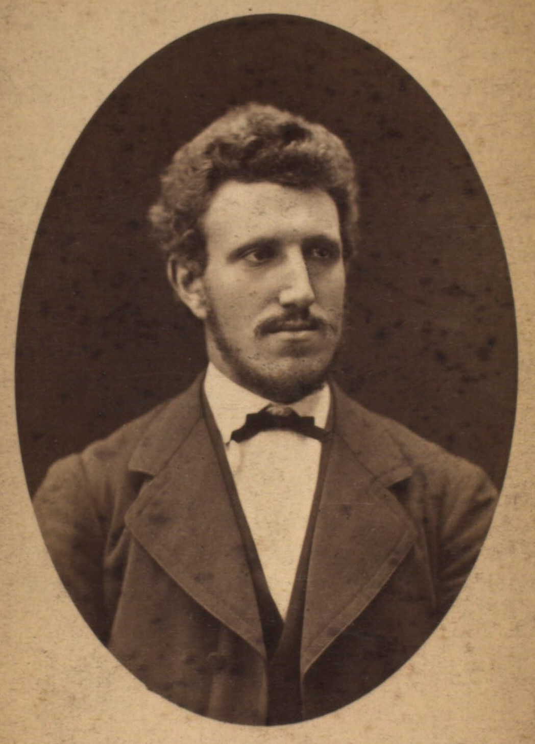 Danish farmer and politician, MP Emil Georg Piper (1856-1928)